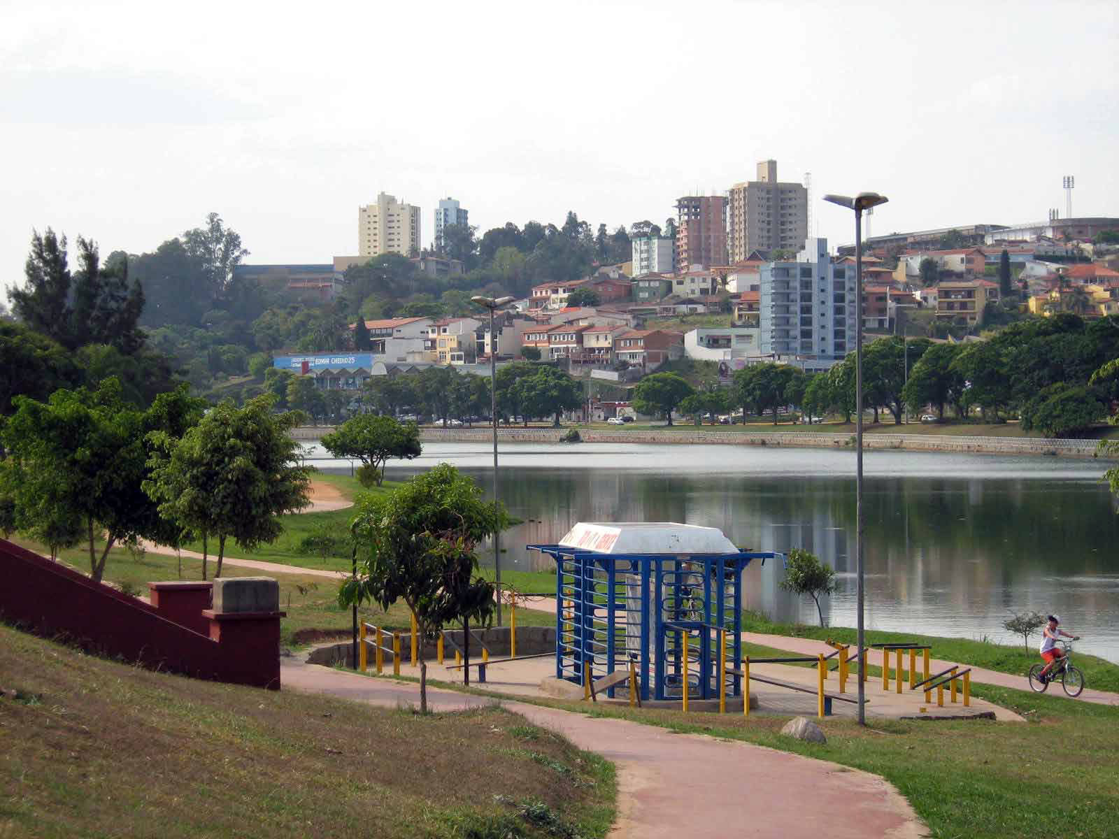 City of Bragança Paulista, seen from Taboão Lake.